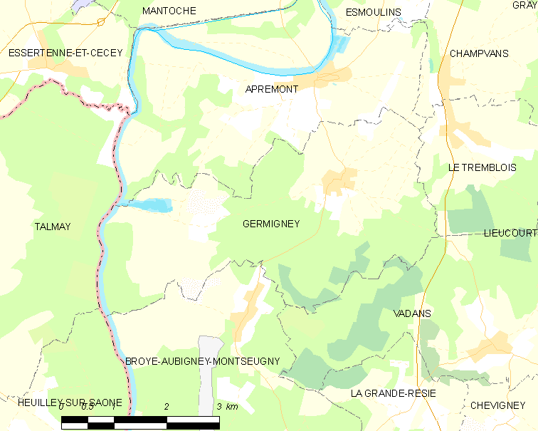 Map of French municipality